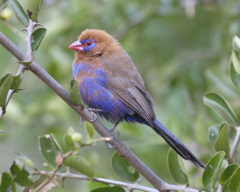 Purple Grenadier - male Uraeginthus ianthinogaster Swahili name: Kitendeli Tumbo-zambarau, Tunguhina Location: Nairobi National Park 23rd. August 2008